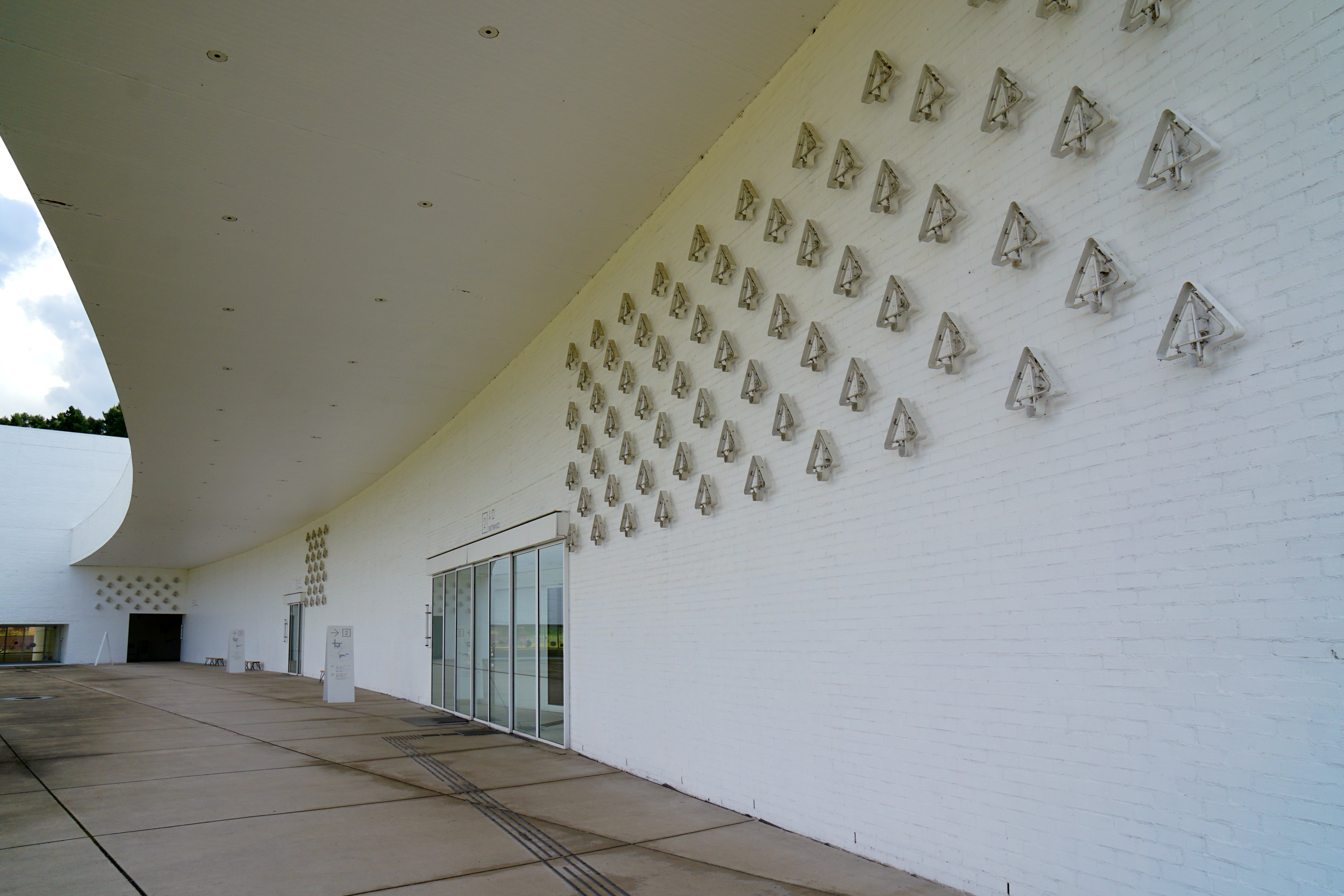 Aomori Museum of Art in Aomori, Aomori prefecture, Japan.